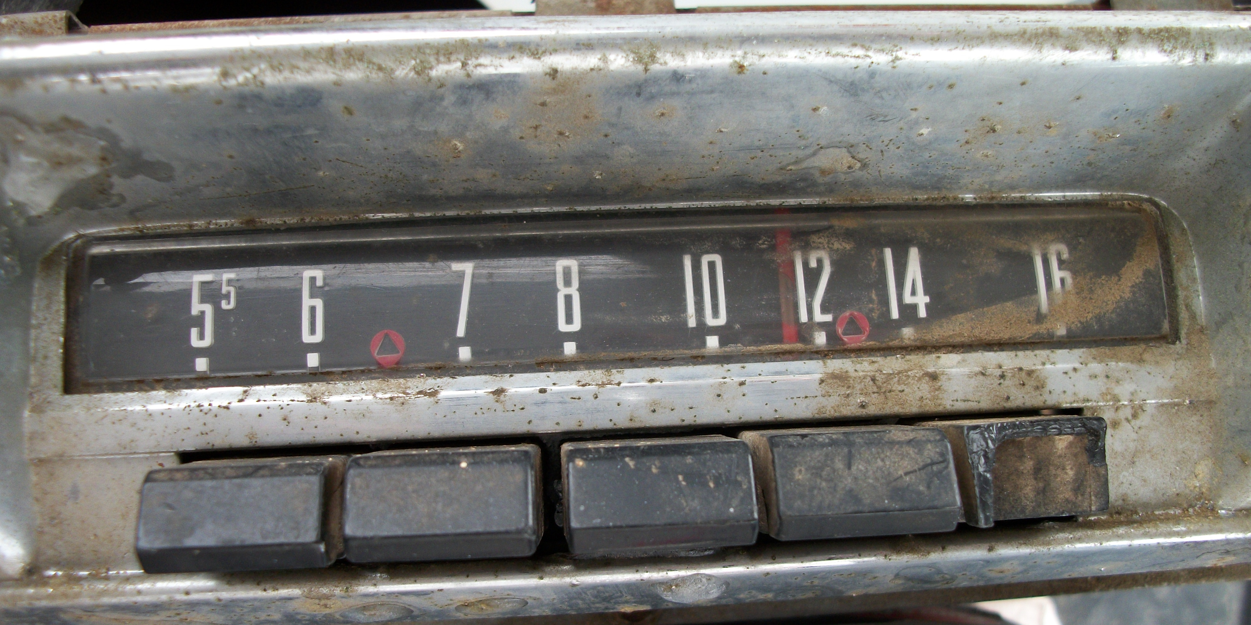 Car radio, AM dial only, with Civil Defense frequencies marked